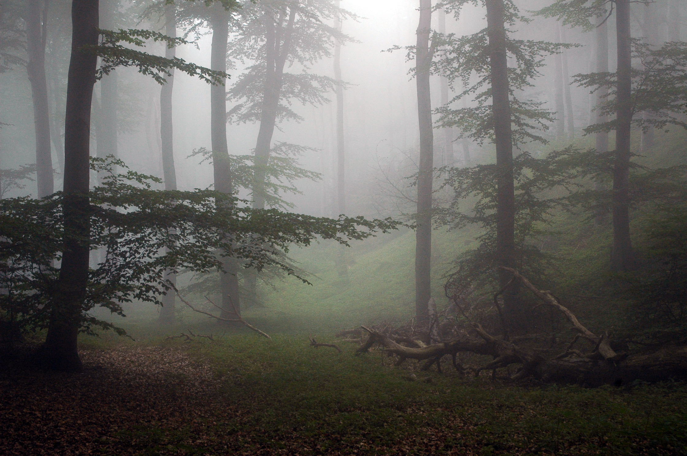 Misty morning on top of the Møns Klint.